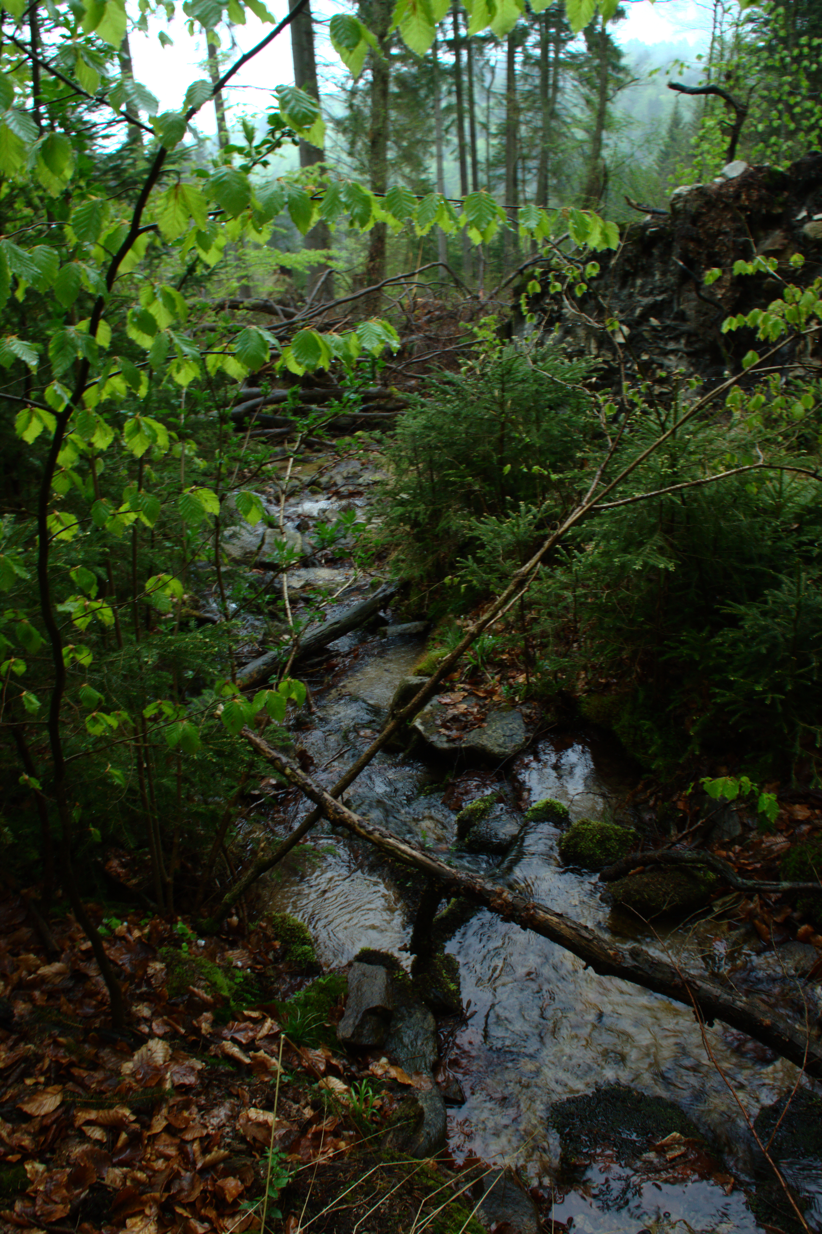 A creek, part of the Hejdlovský potok protected area at the southern slope of the hill of Kleť, South Bohemian Region, CZ Project: Chráněná území